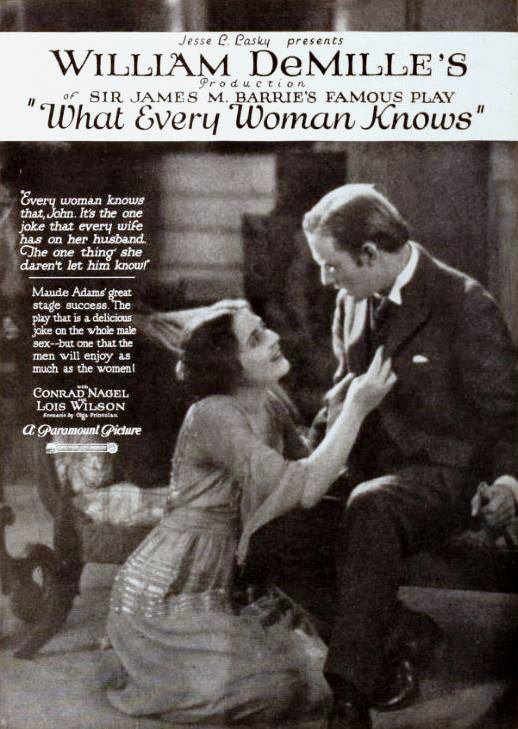 Advertisement for the American film What Every Woman Knows (1921) with Lois Wilson and Conrad Nagel, on page 4 of the March 26, 1921 Exhibitors Herald.